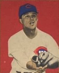 Cincinnati Reds infielder Grady Hatton.